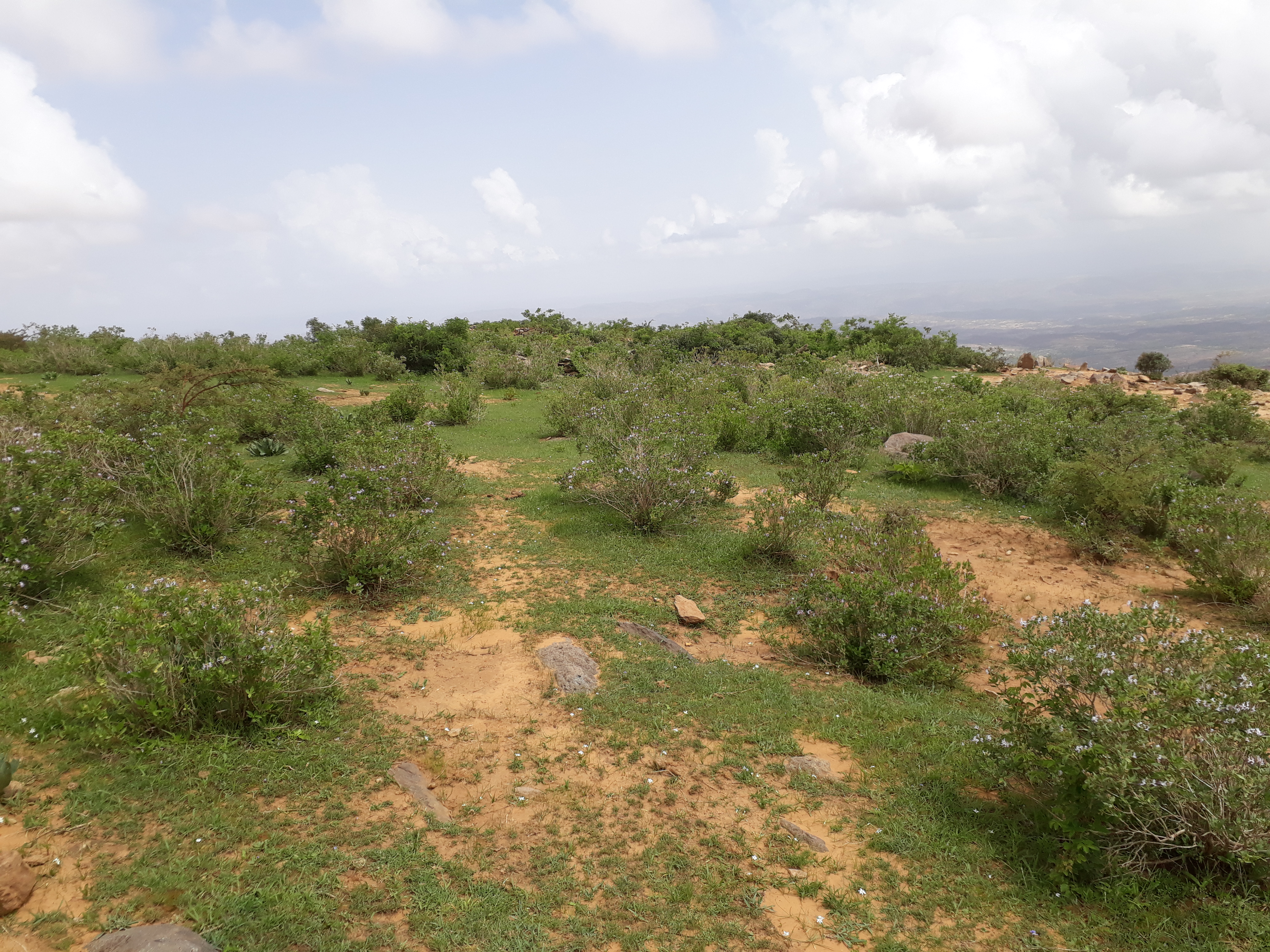 Maryam ruins